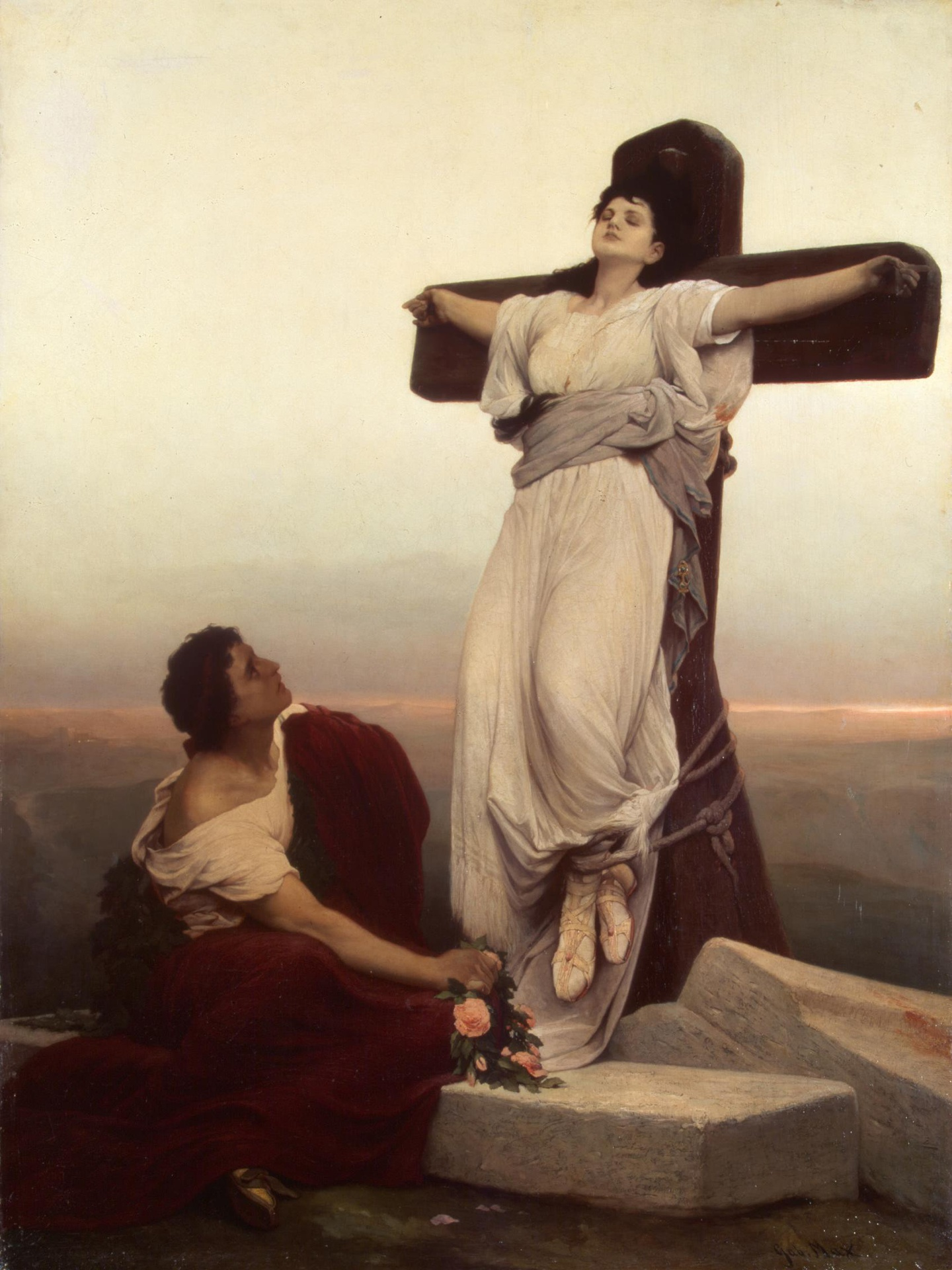 (also called „Crucified Martyress“)